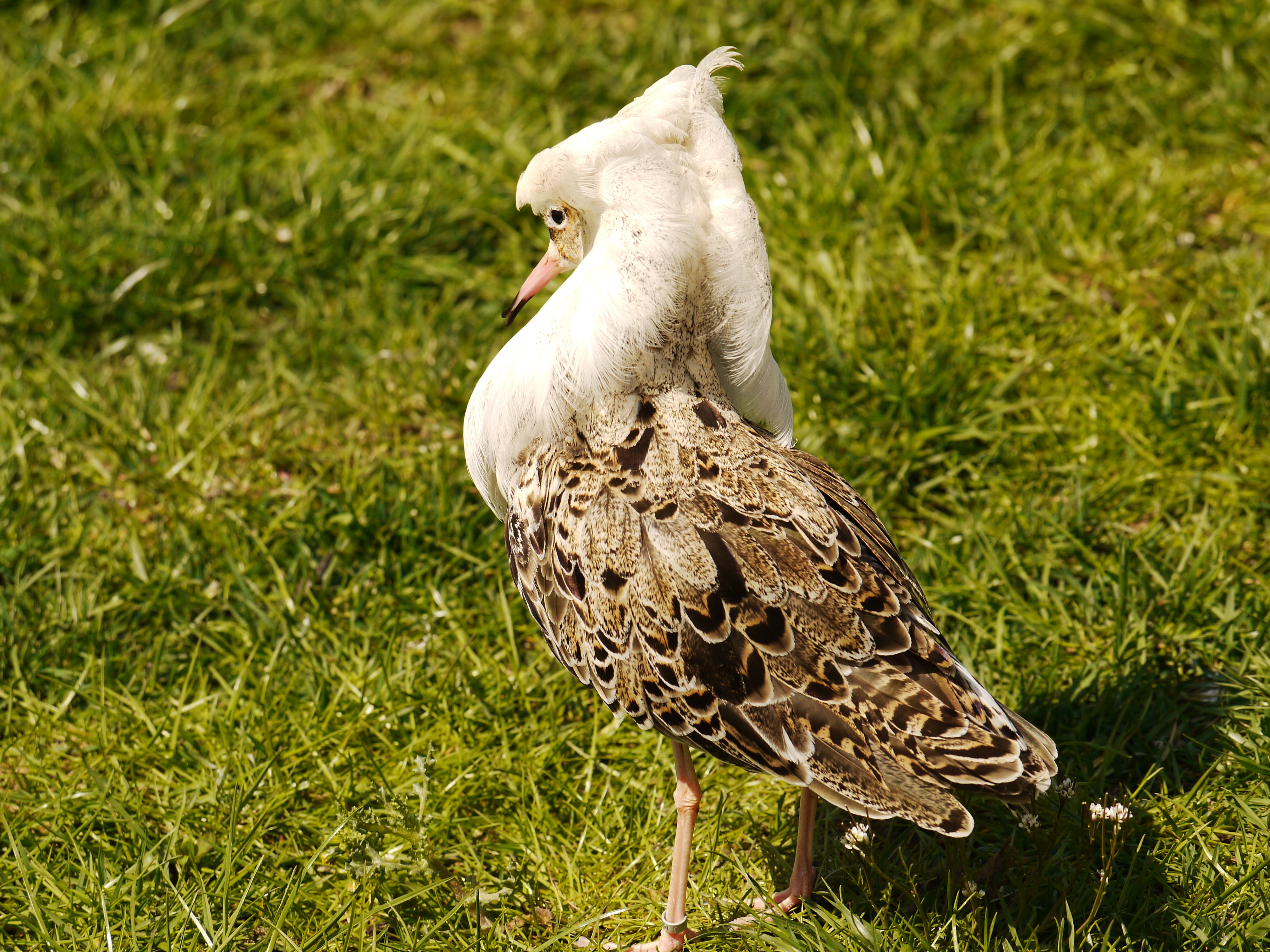 Male ruff (Philomachus pugnax) in breeding plumage